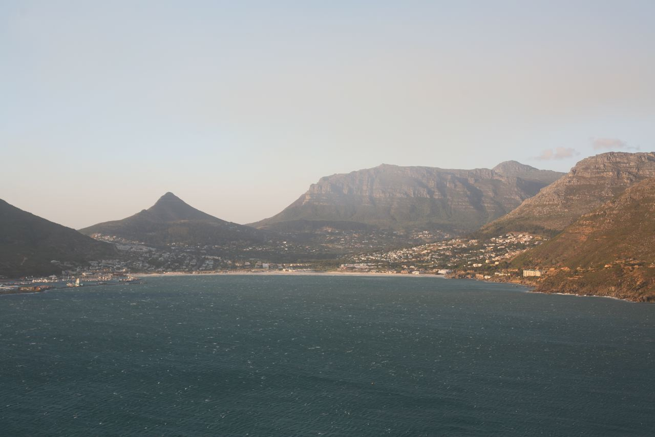 Hout Bay, Cape Town, South Africa in January 2006.